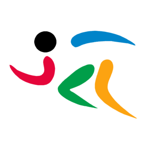 Athletics Pictogram, for Userbox purpose